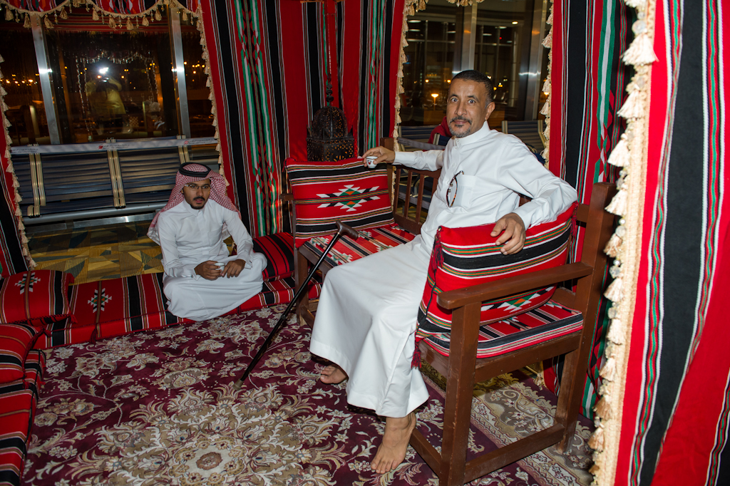 Guests inside the Ramadan tent at the airport